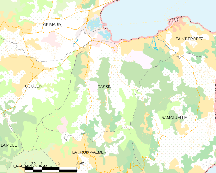 Map of French municipality Gassin